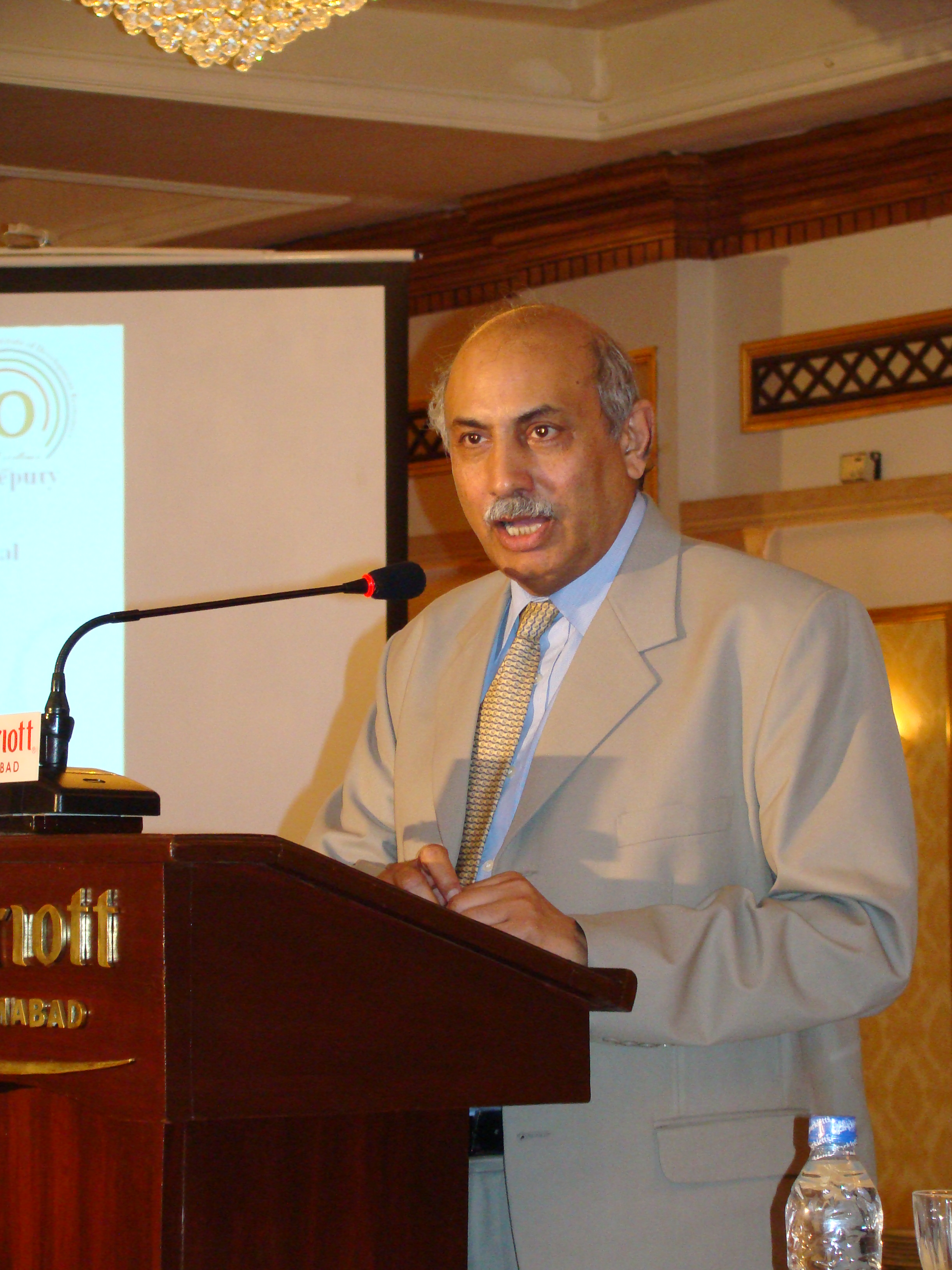 Dr Kemal during 2008 PSDE Conference